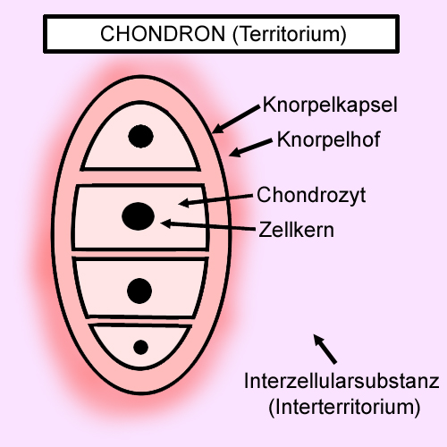 Chondron; Isogene Gruppe; Territorium; Knorpel - Image of a chondron (cartilage) with German description